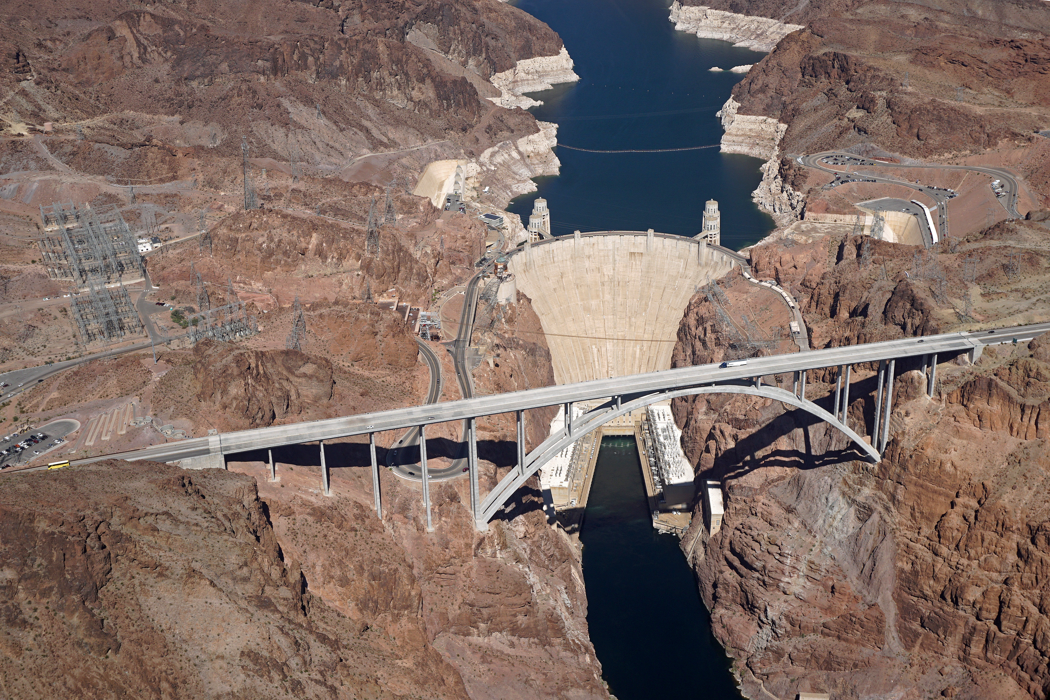 Aerial view of the Mike O'Callaghan–Pat Tillman Memorial Bridge over the Colorado River at Hoover Dam (Nevada-Arizona limit)